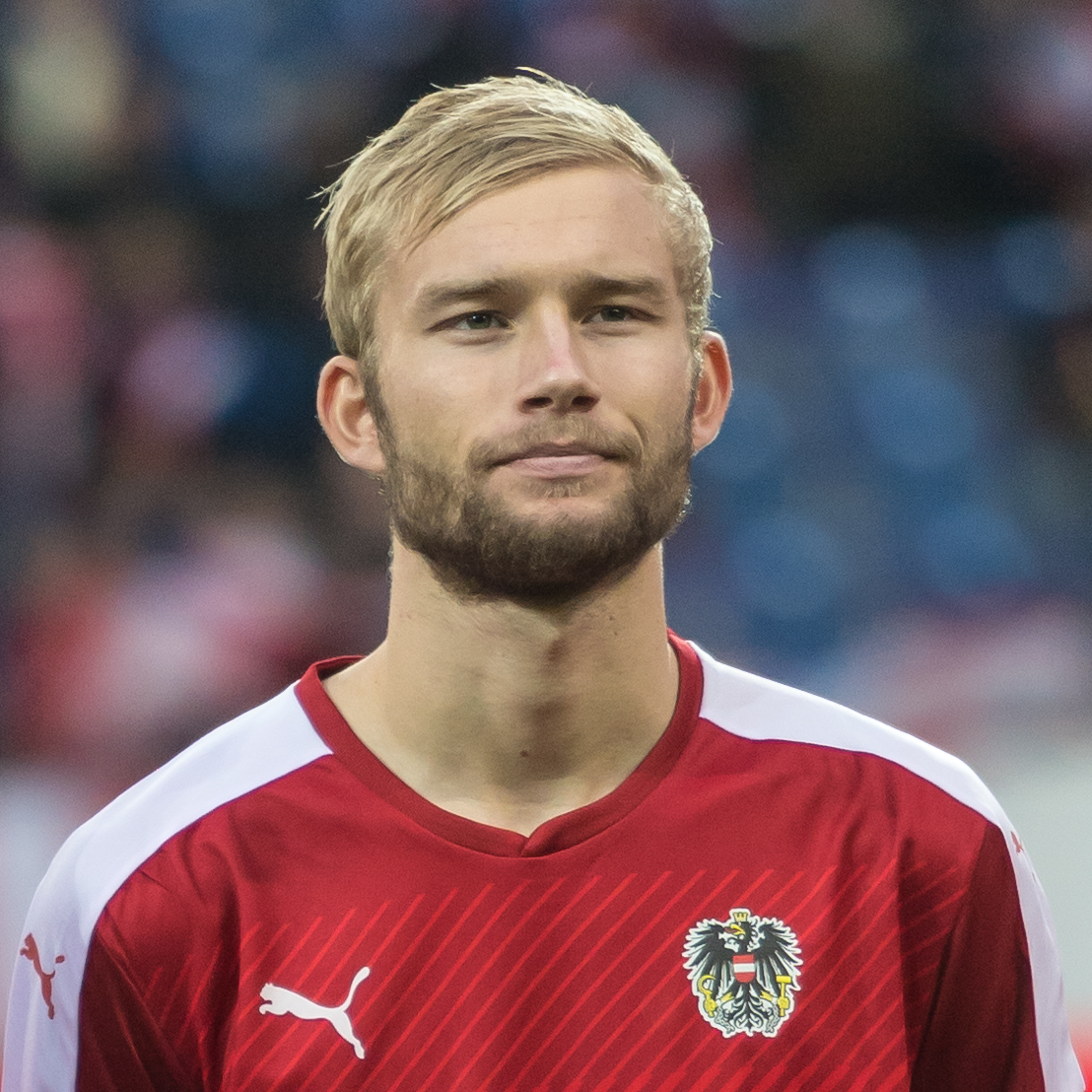 European Under-21 Championship 2017 Qualifying Round, Austria vs Germany, 11/10/2016, St. Polten